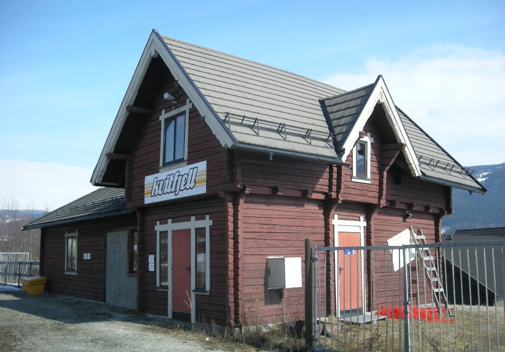 Kvitfjell station on the Dovre line